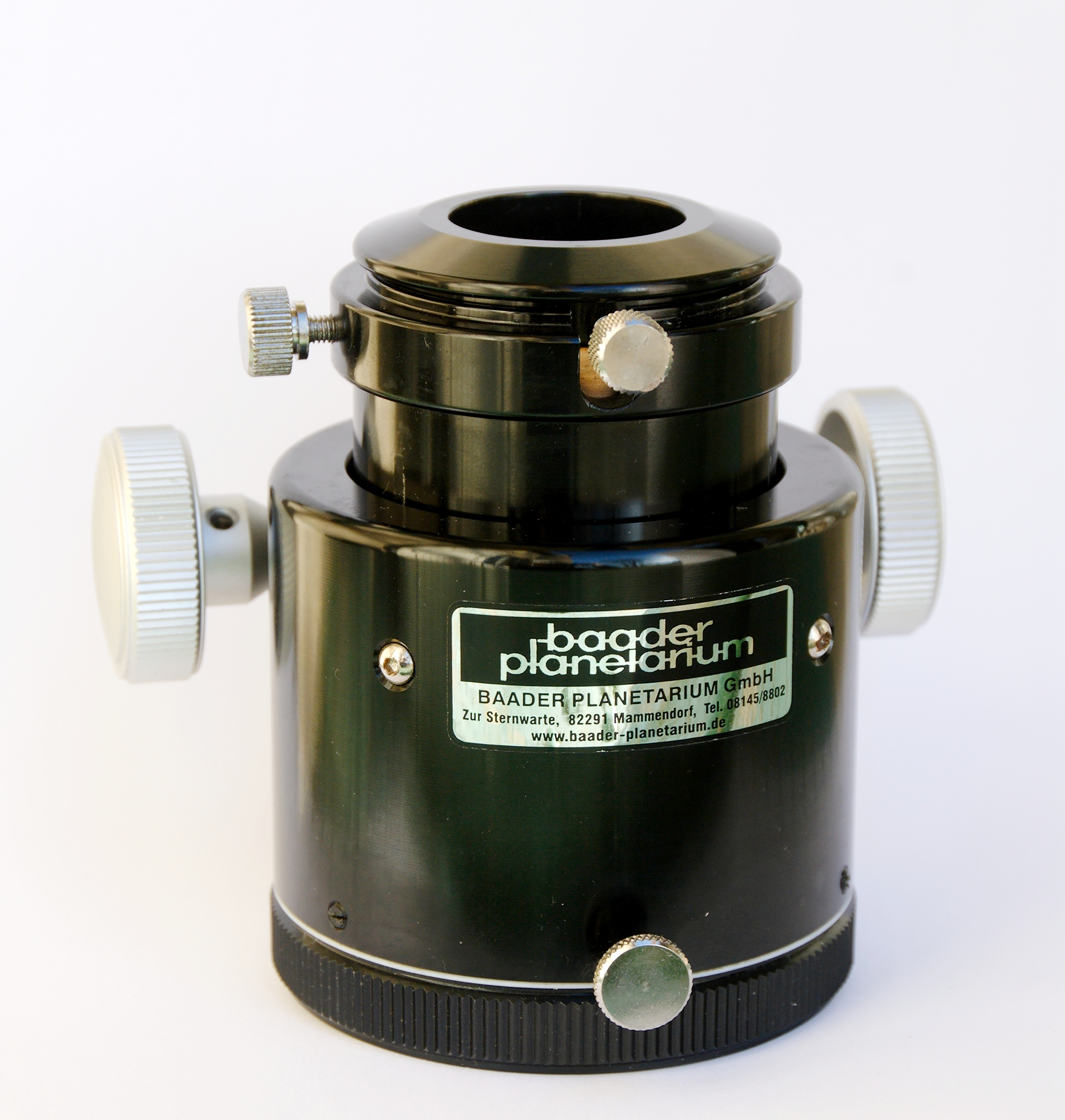 Baader 2" Crayford focuser for Schmidt-Cassegrain telescopes.